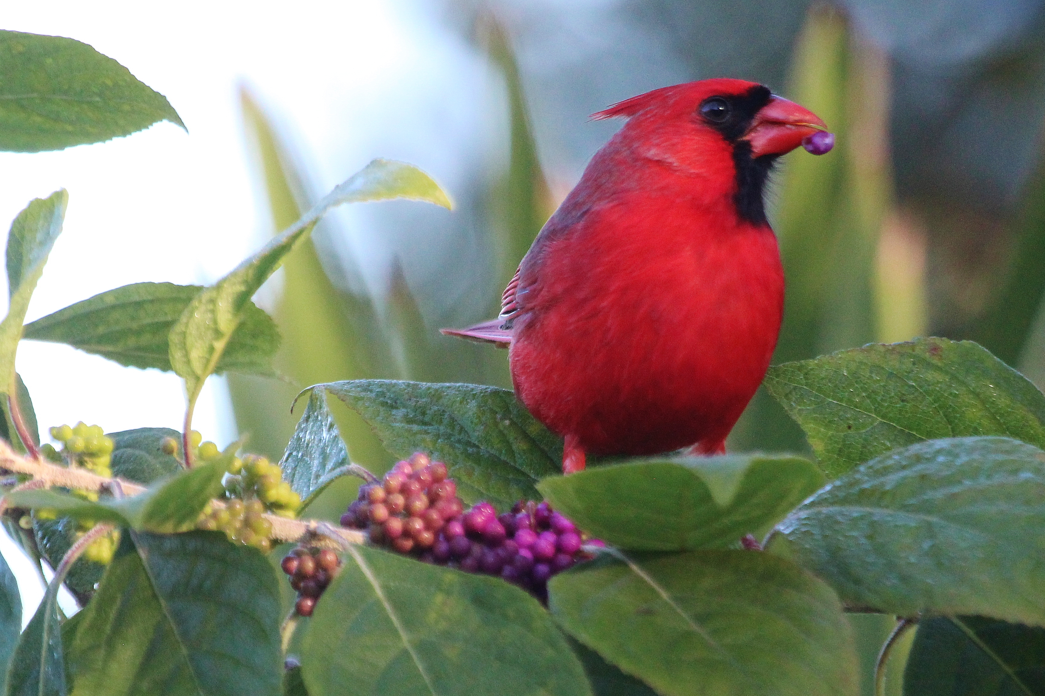 Male cardinal feeding on Callicarpa americana at Okeeheelee Nature Center, Florida. Note that the original photographer labelled the foodplant as raspberry, but this was incorrect.